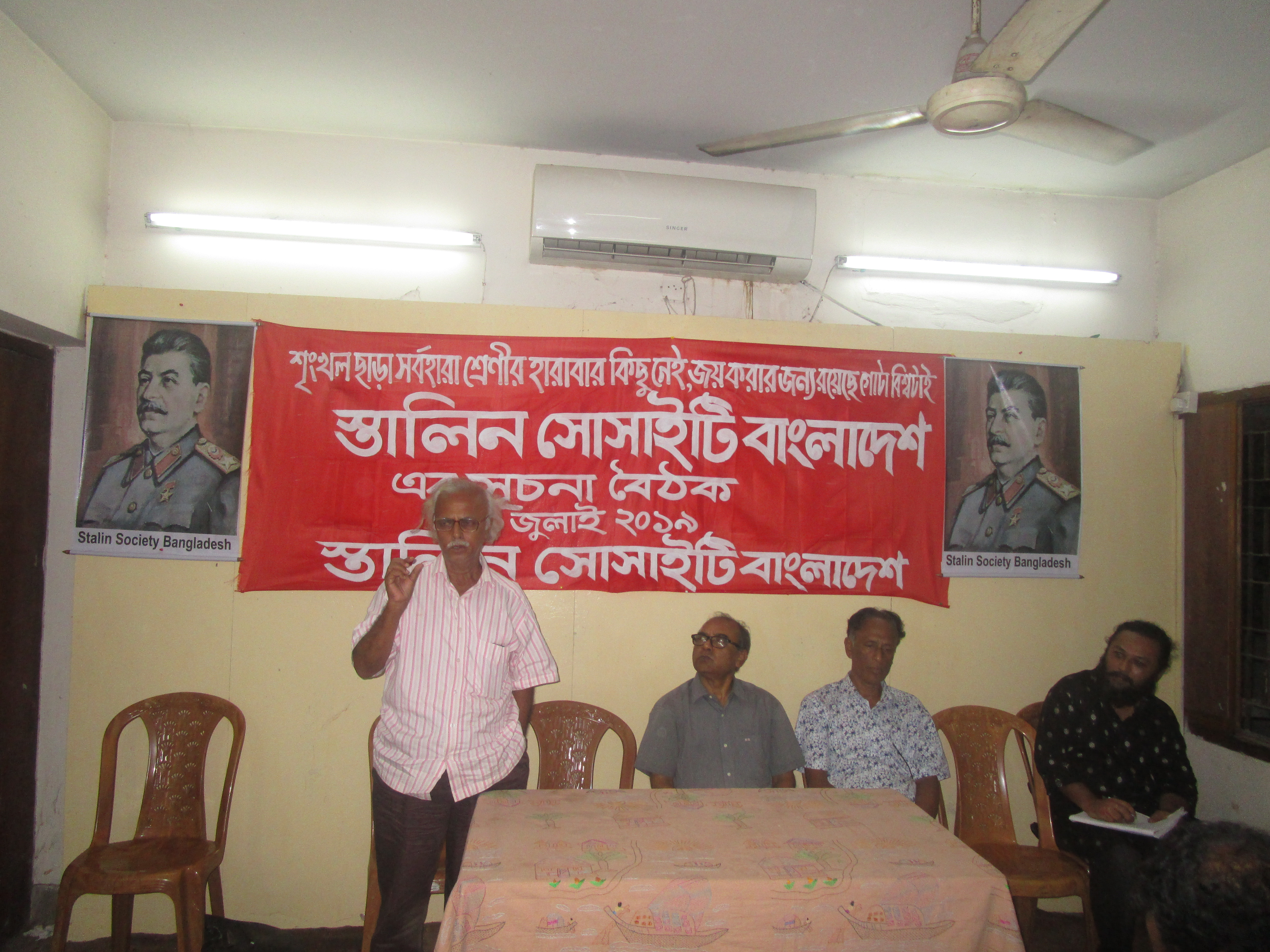 Stalin Society Bangladesh is addressing the occasion.